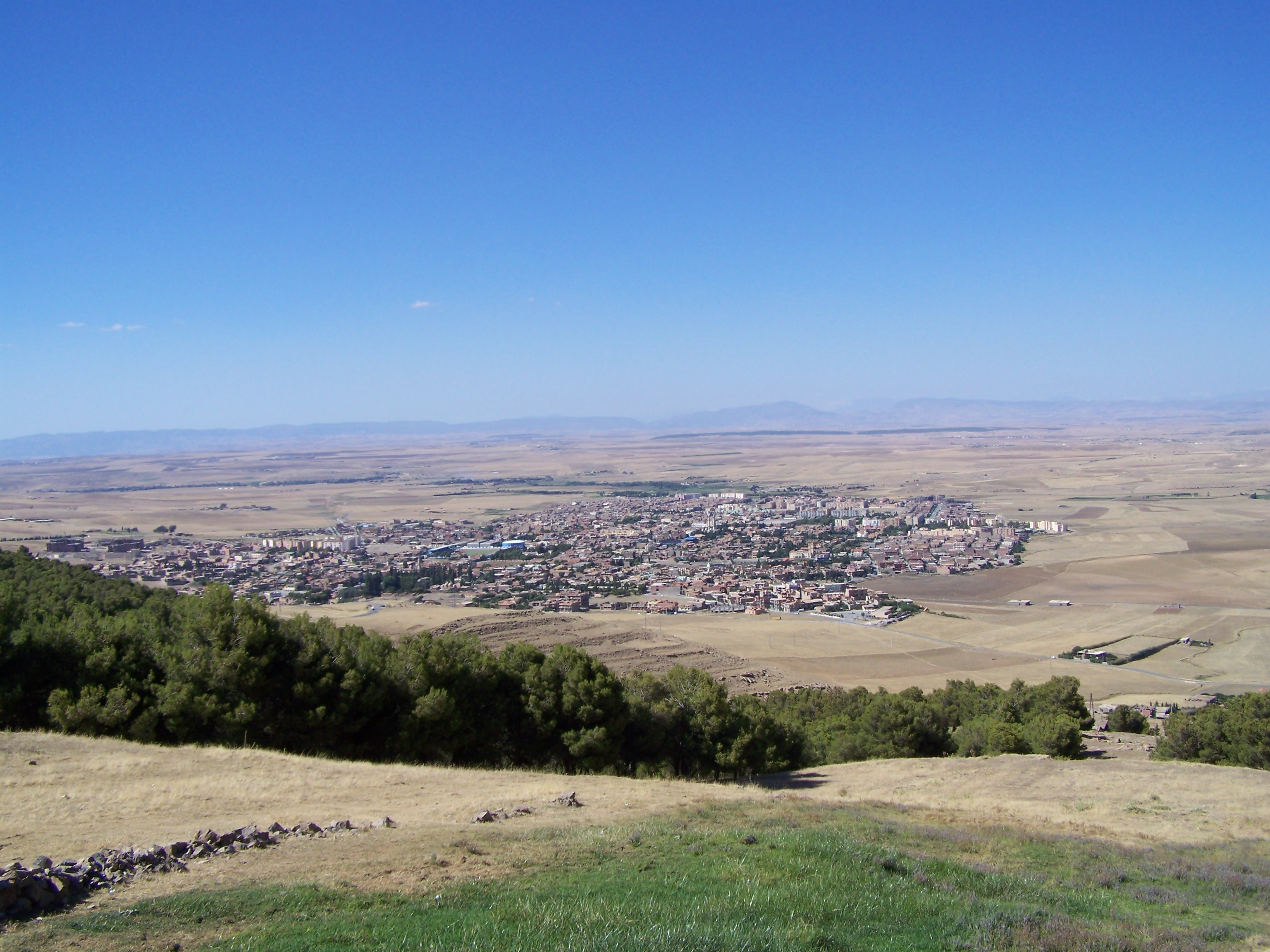 Ras El Oued view from the site of M'Zaïta